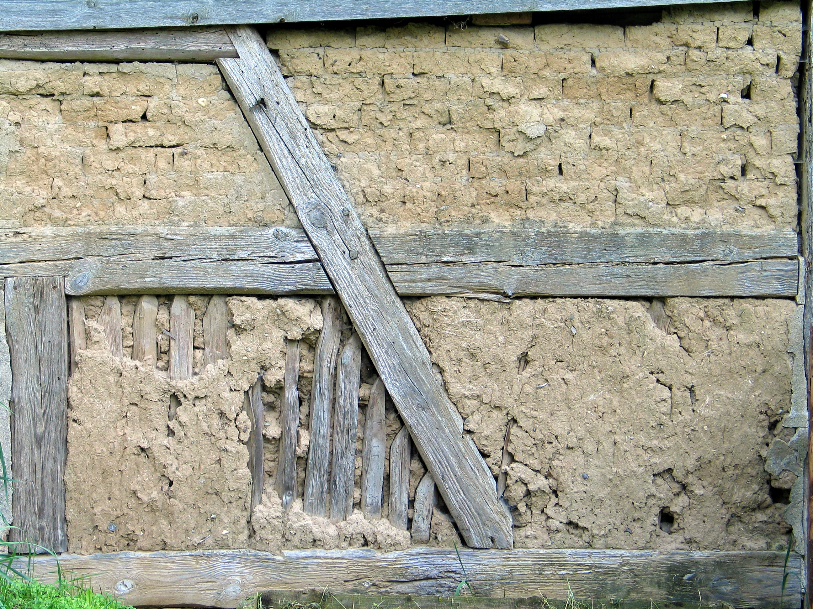 half-timbered wall infilled with clay / Fachwerkwand mit Lehmausfachung